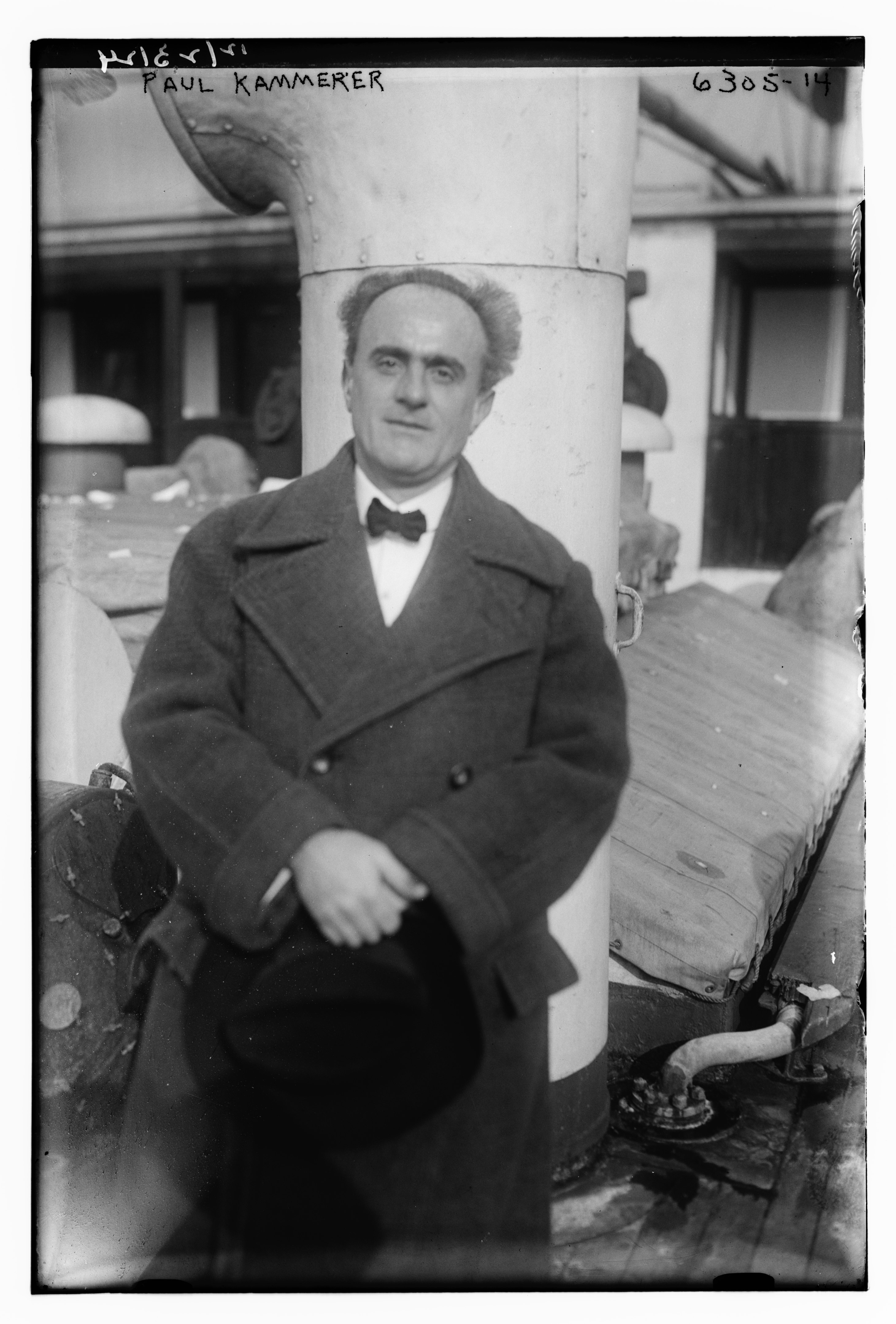 Title: Paul Kammerer Abstract/medium: 1 negative : glass ; 5 x 7 in. or smaller.